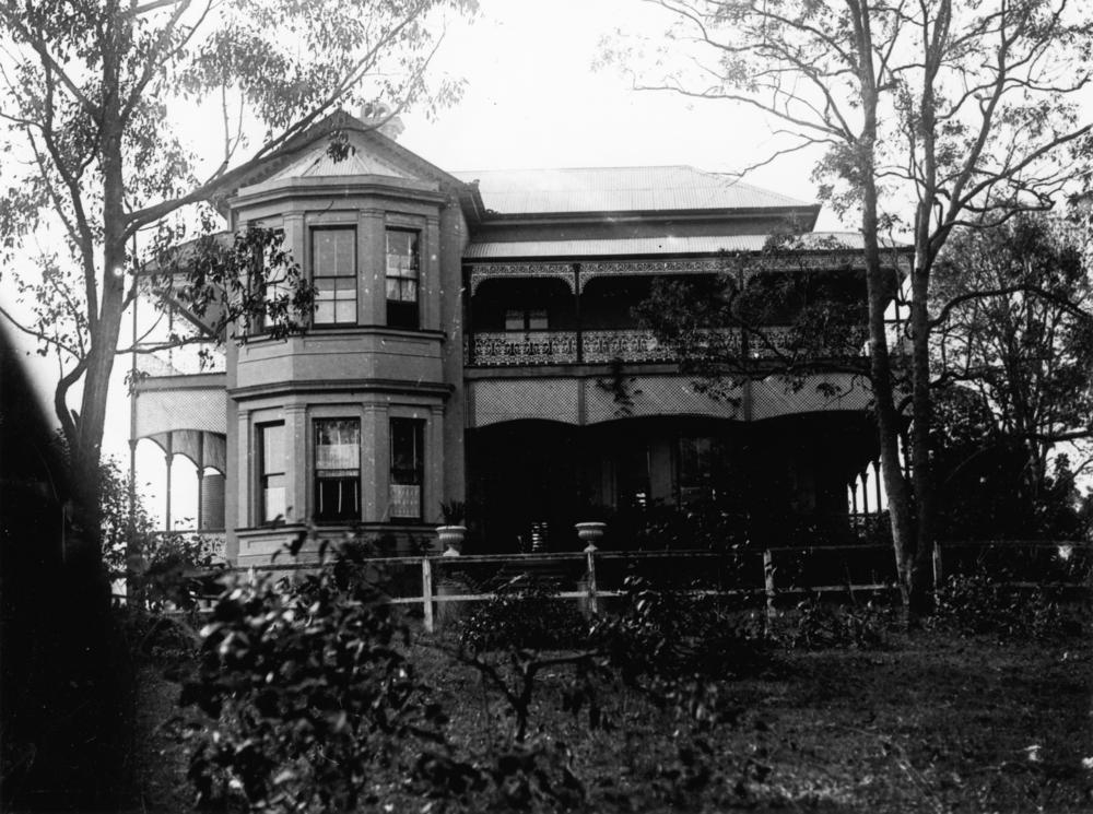 A heritage-listed residence, now at 23 Riverview Place, Yeronga, Brisbane, Queensland, Australia